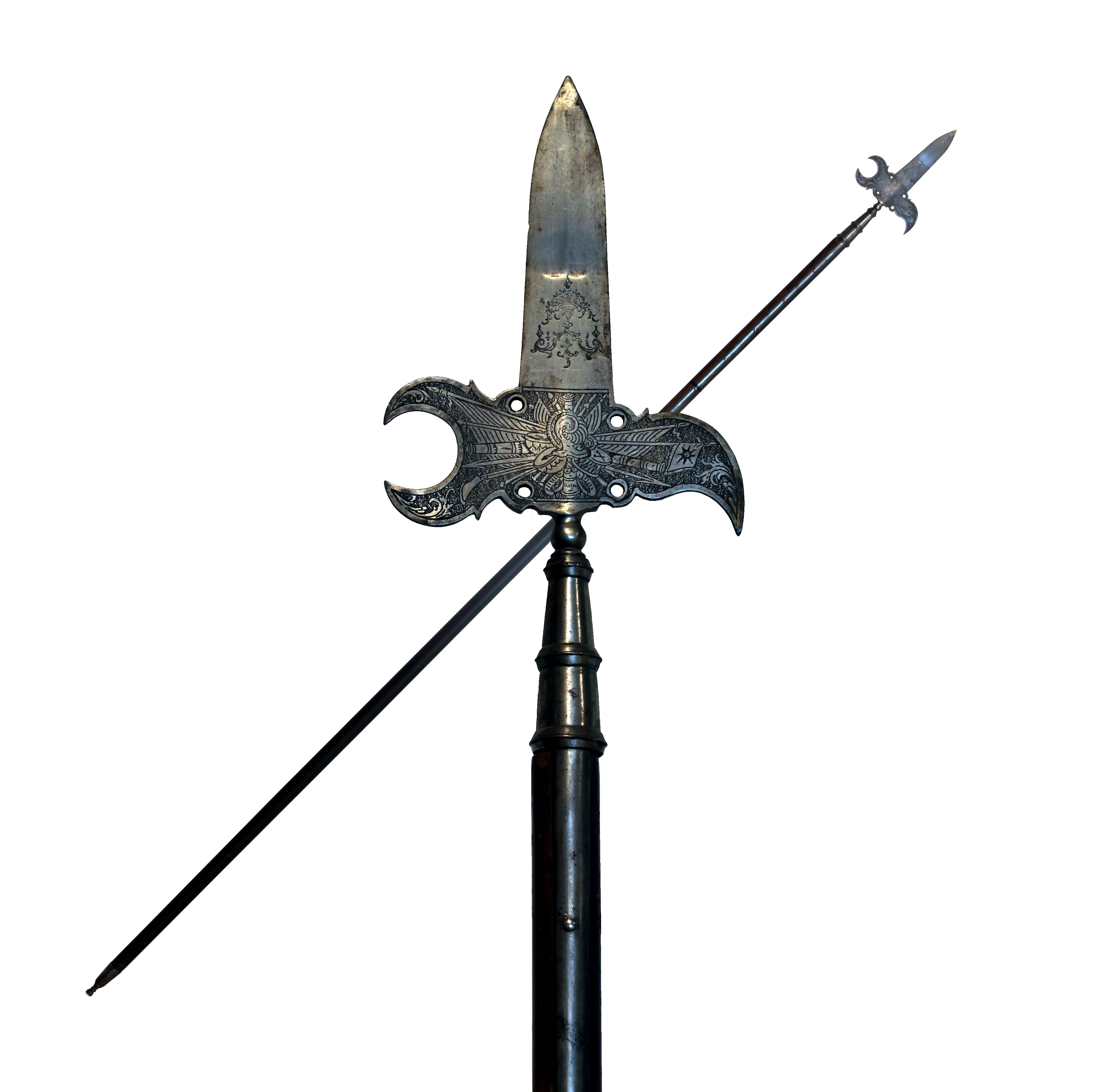 Halberd-spontoon, 18th century. On display at Morges military museum, accession number 108.